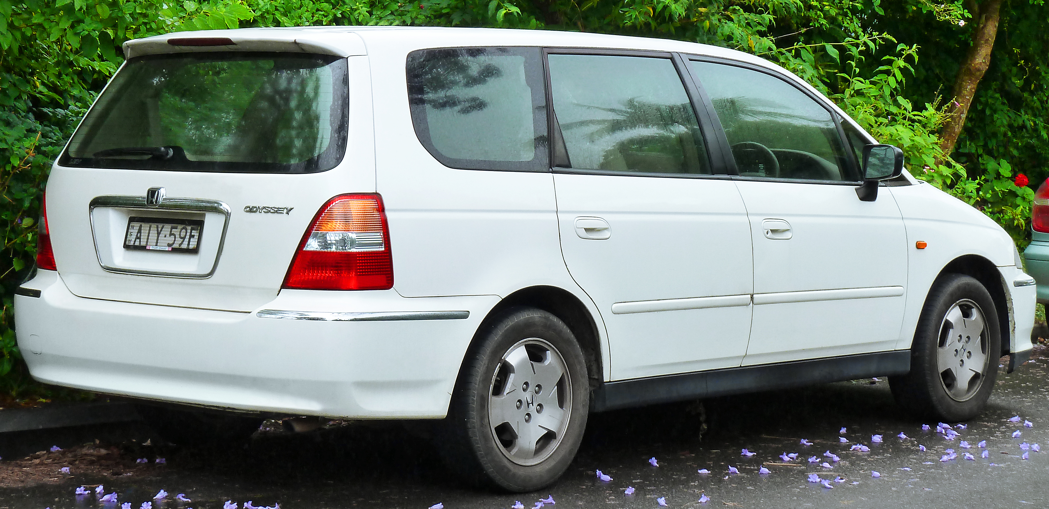 2000–2002 Honda Odyssey van. Photographed in Roseville, New South Wales, Australia.